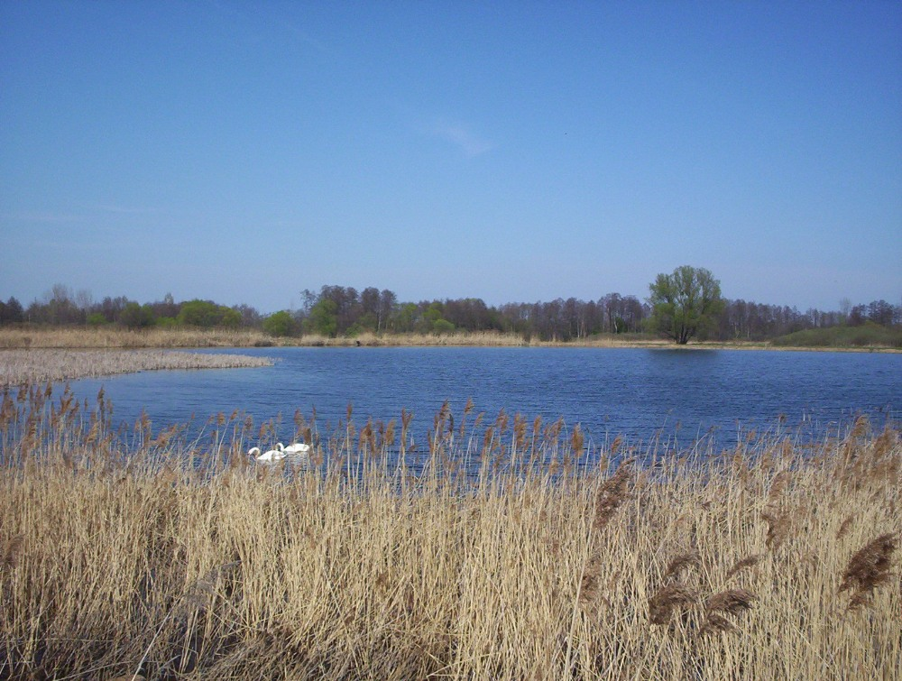 Pond with two cygnus olor, nature reserve Stawy Gnojna, Poland.